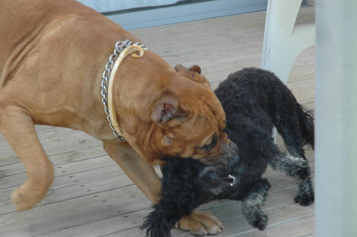 Bullmastiff and Poodle/Terrier mix playing